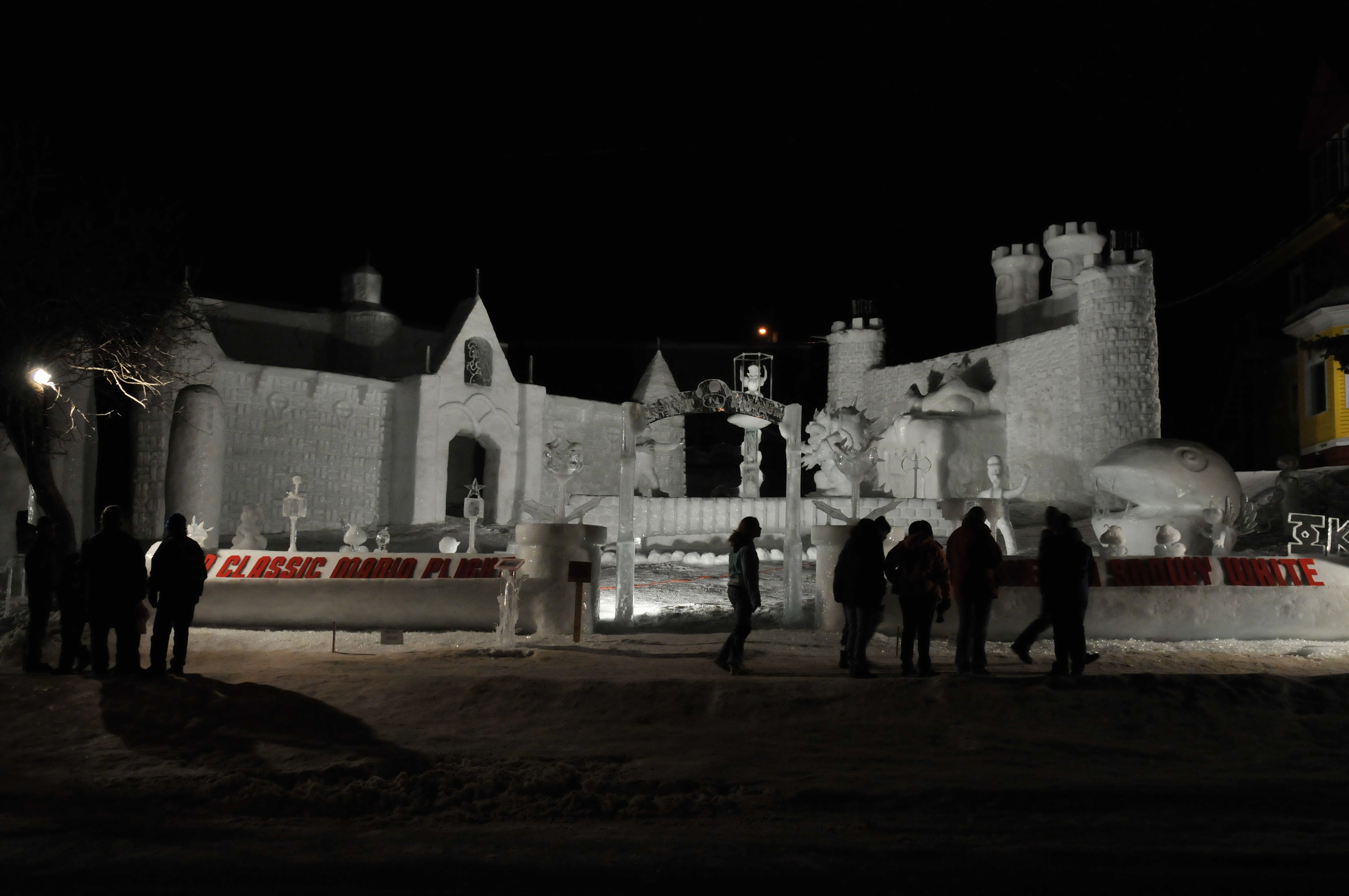 Phi Kappa Tau's snow statue, "A Classic Mario Plight Portrayed In Snowy White", earned first place in the fraternity division of the month-long statue competition at the 2010 Michigan Tech Winter Carnival. The theme for the competition was "Games We Know Captured In Snow".